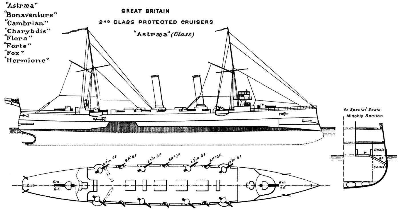 Right elevation, deck plan and hull cross-section diagrams, illustrating British Astraea class protected cruiser.